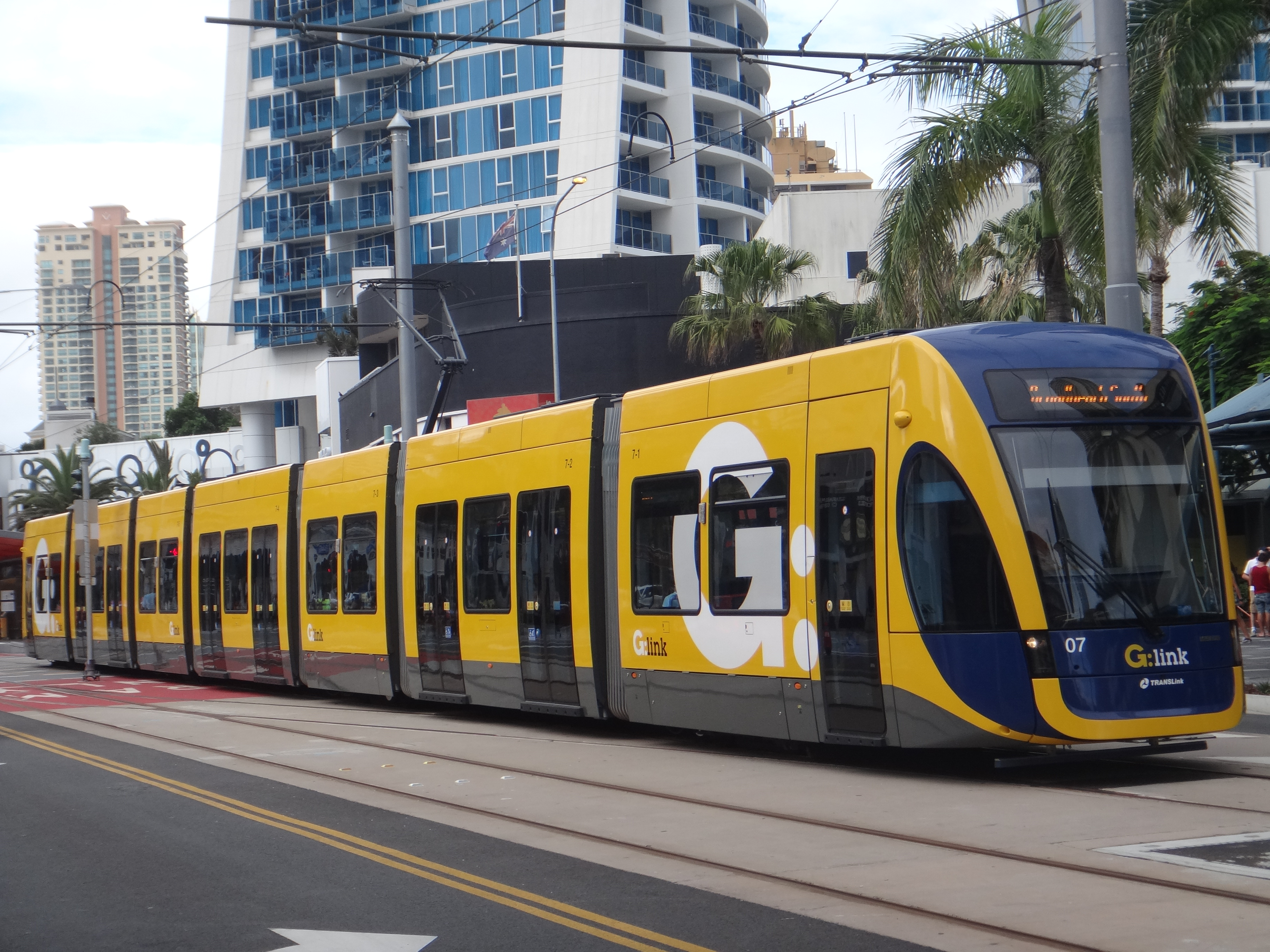 Flexity 2